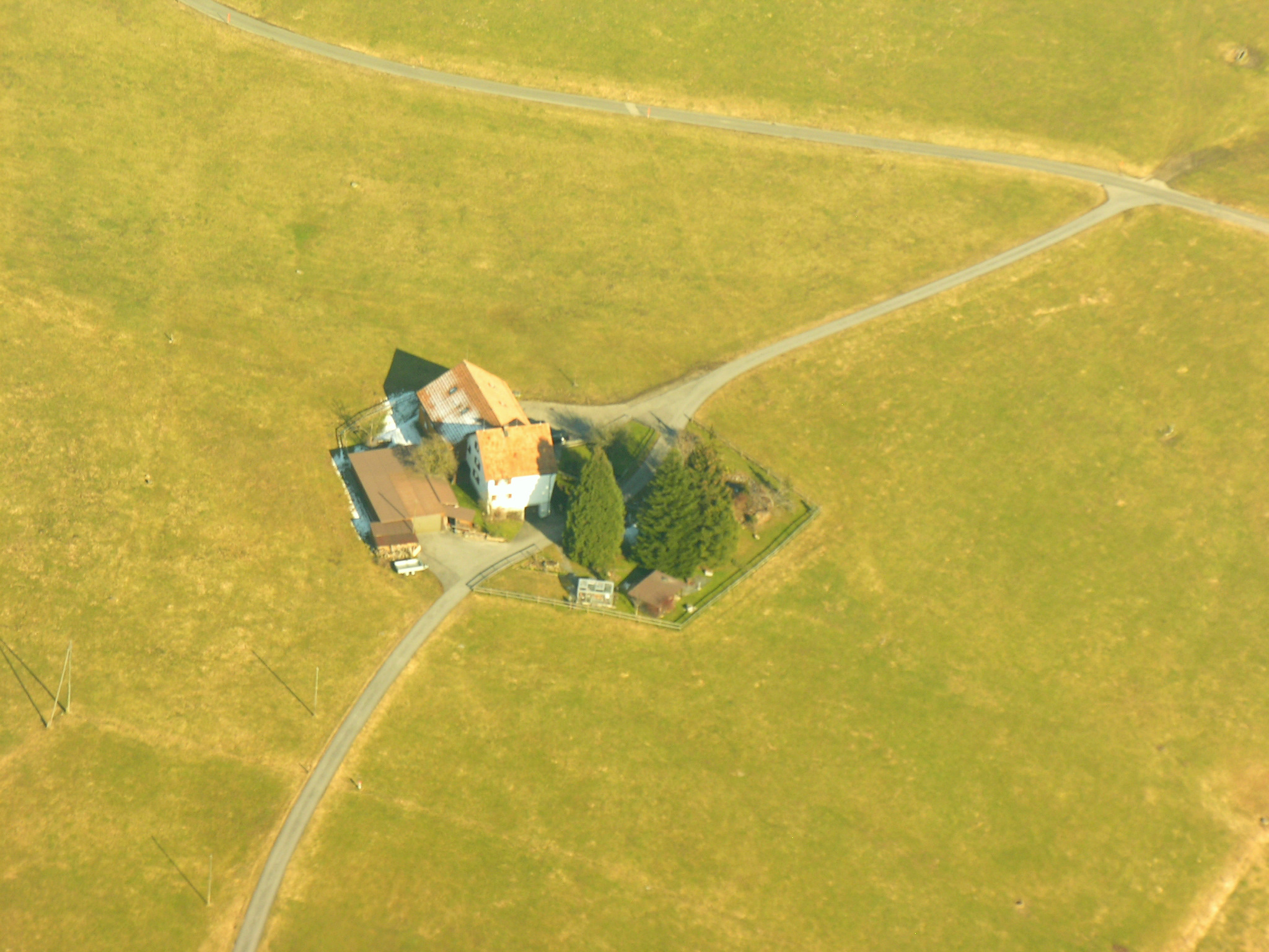 Aerial View of a Farm near Bühler